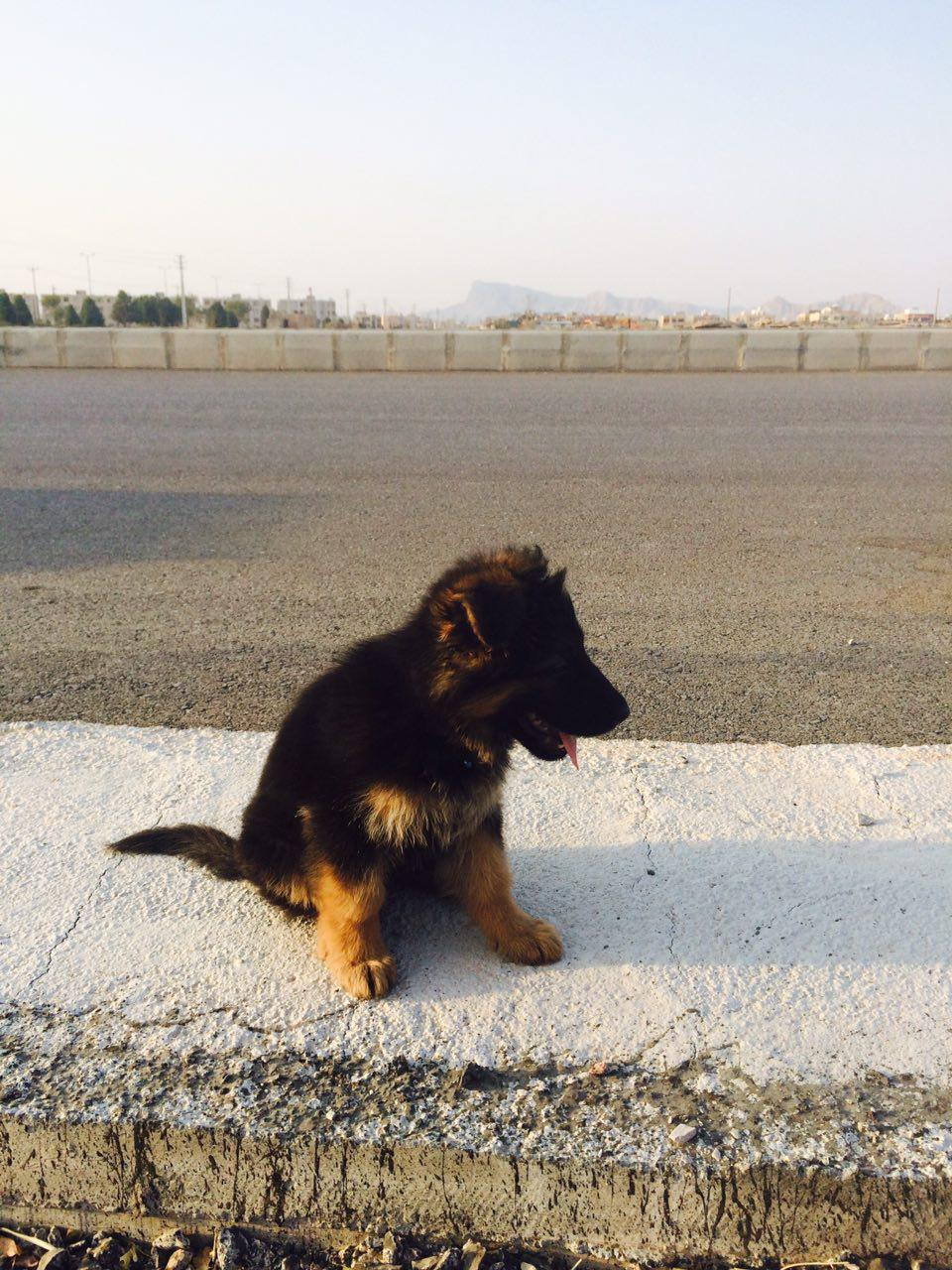 توله ی ژرمن در سن دو ماهگی - Ema